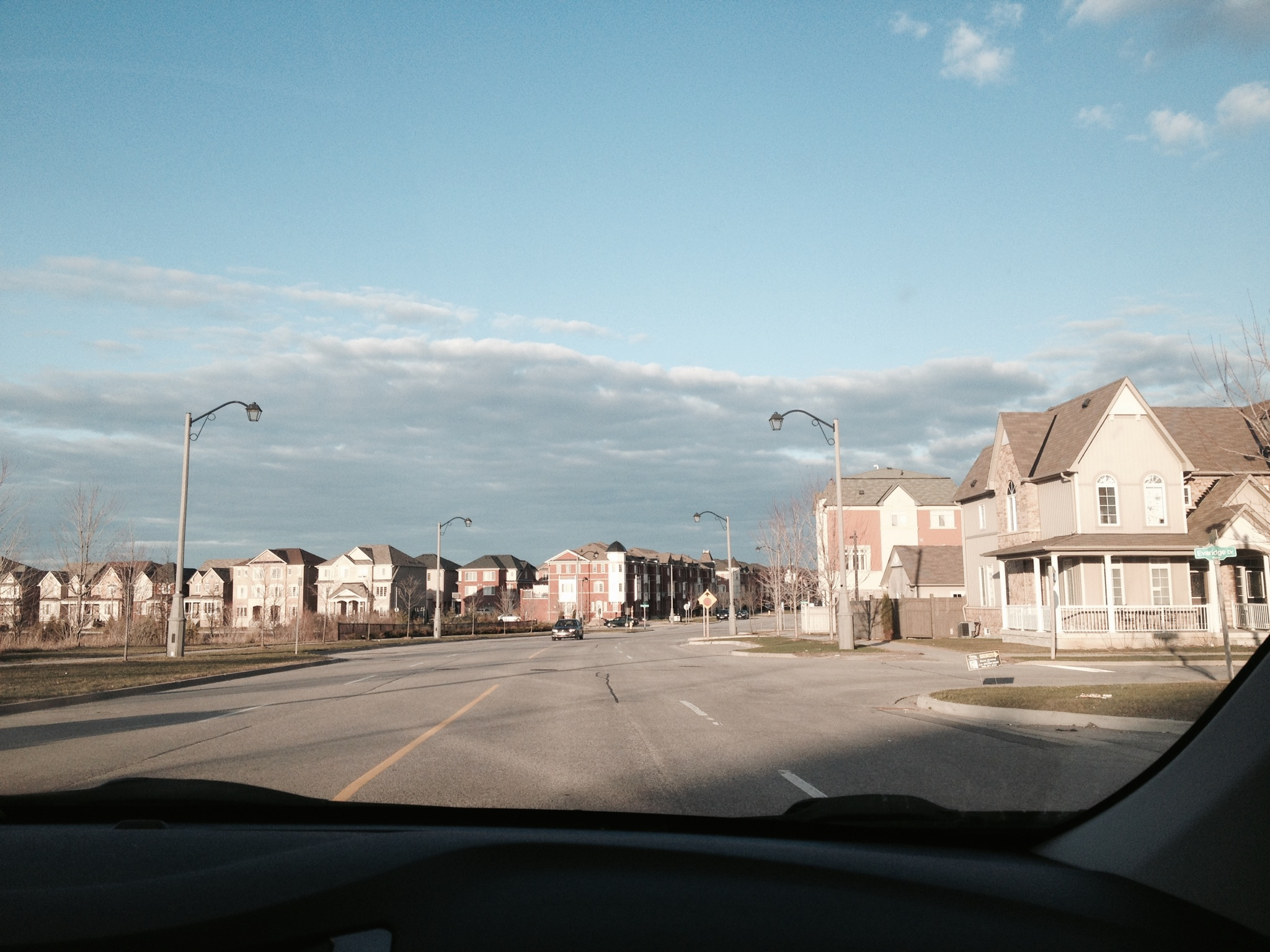 cornell village markham